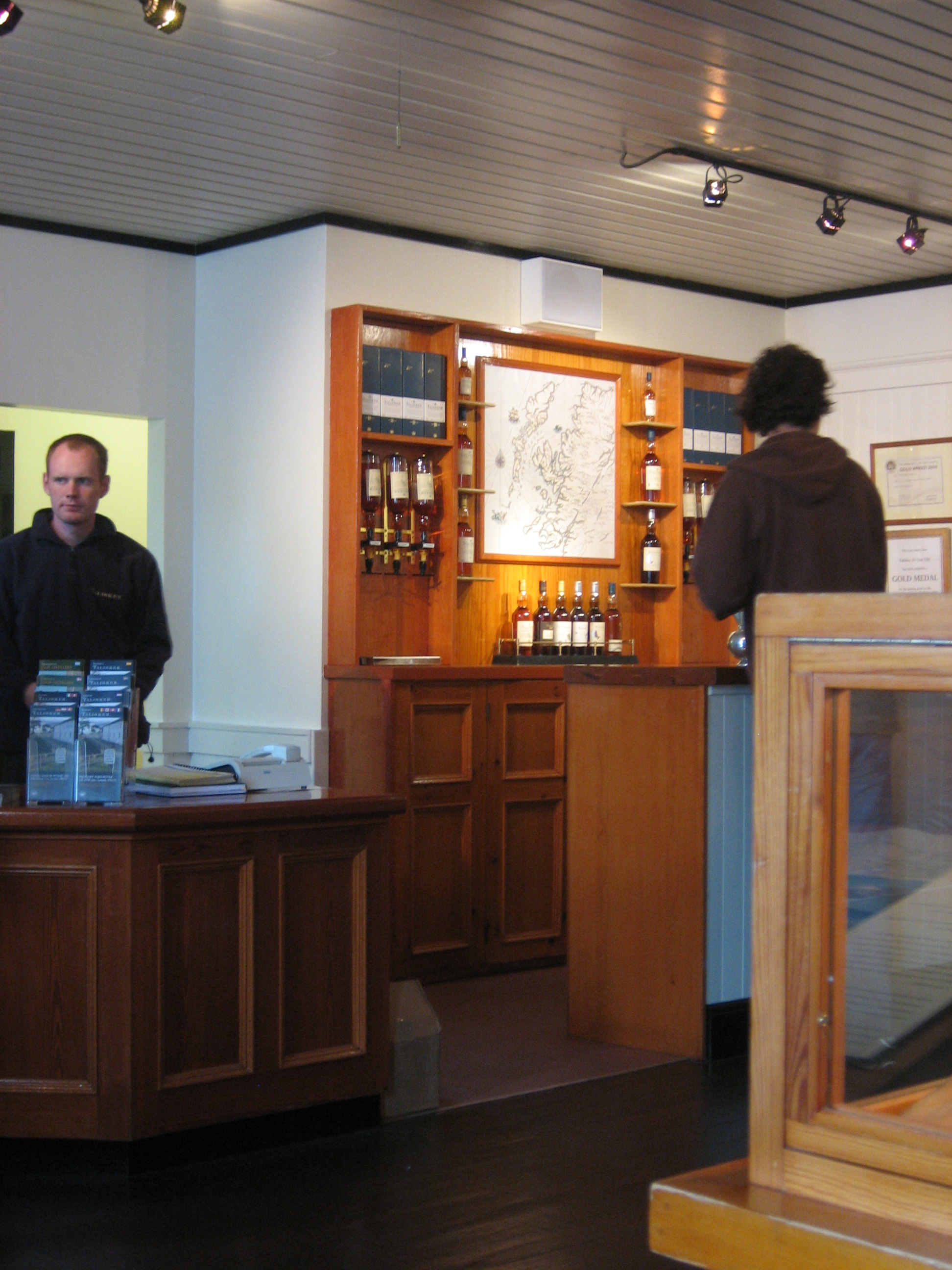 Bar at the visitor center of the Talisker distillery, where a sample is served during the waiting period before a guided tour.